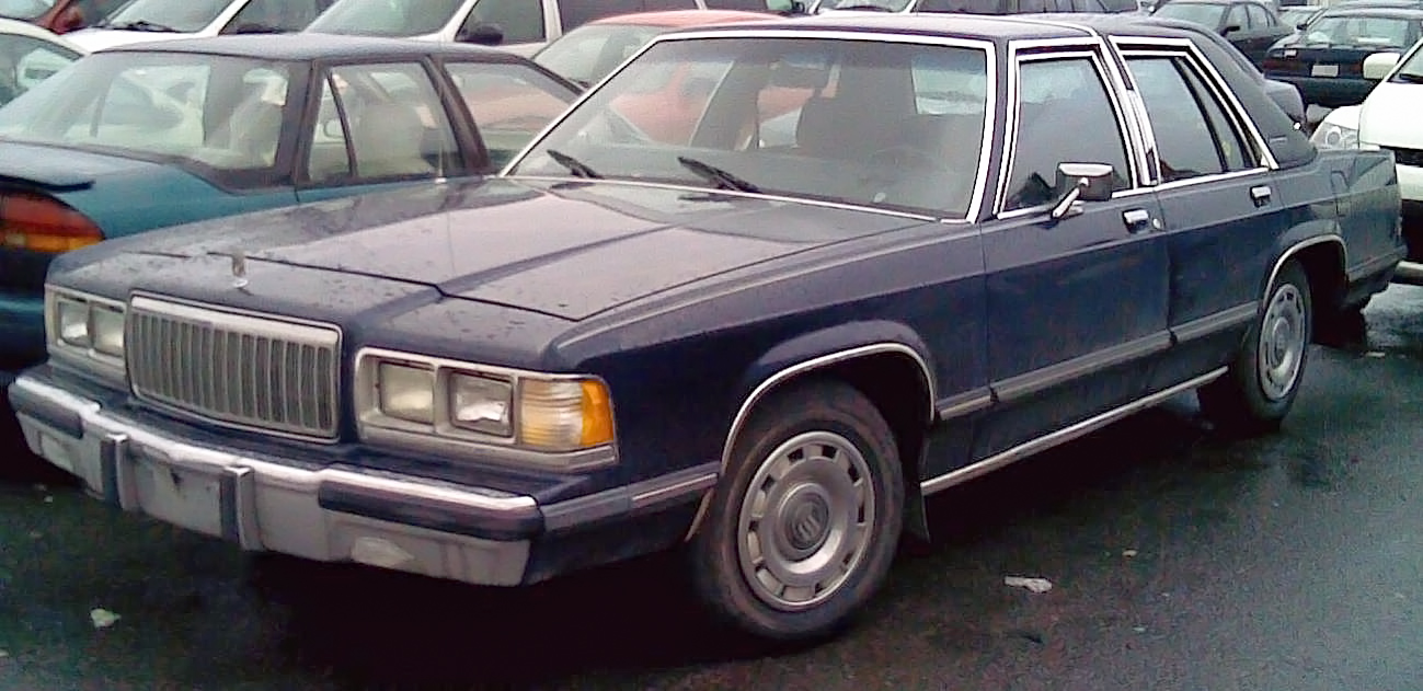 1988-1991 Mercury Grand Marquis photographed in Montreal, Quebec, Canada.